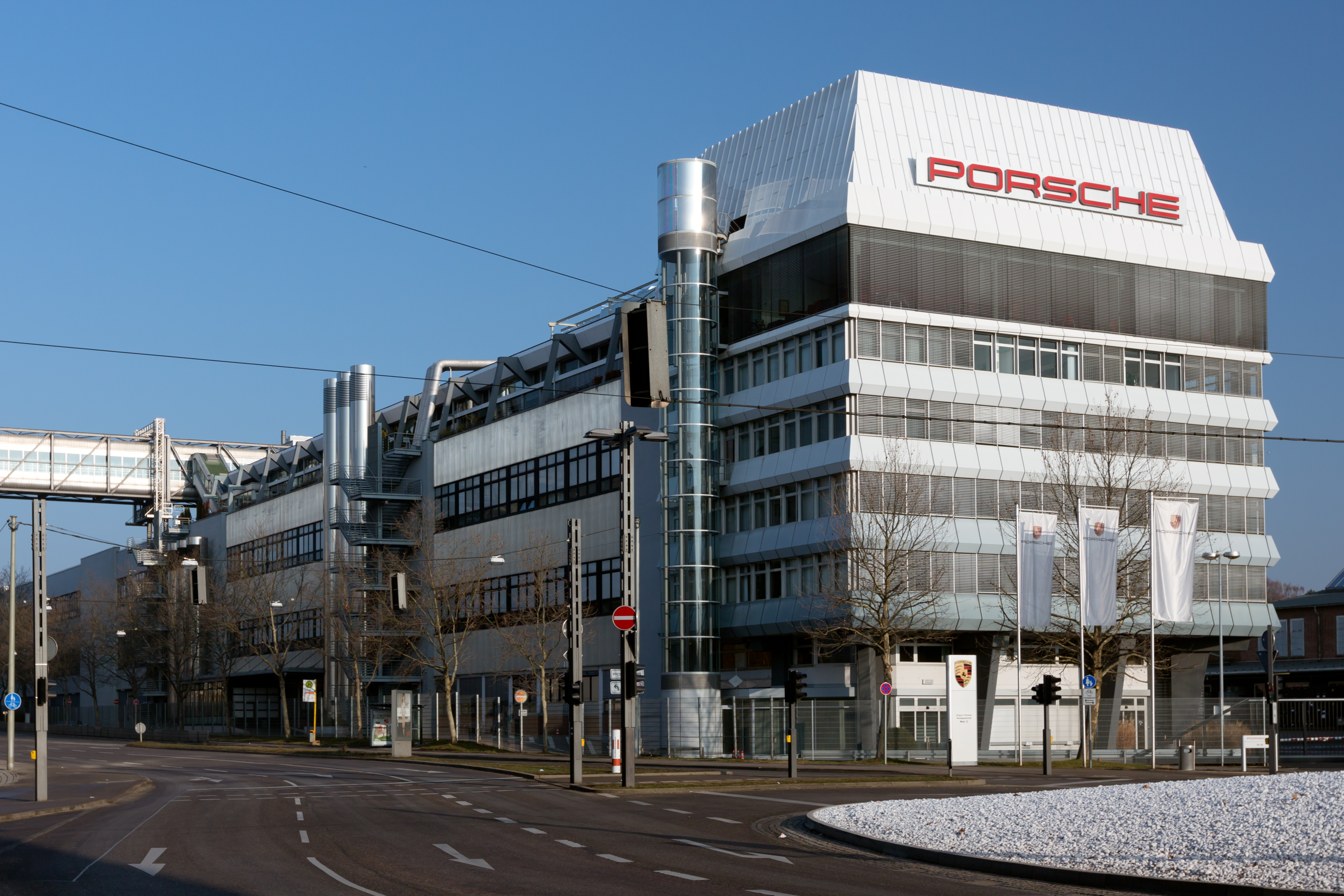 Porsche headquarters